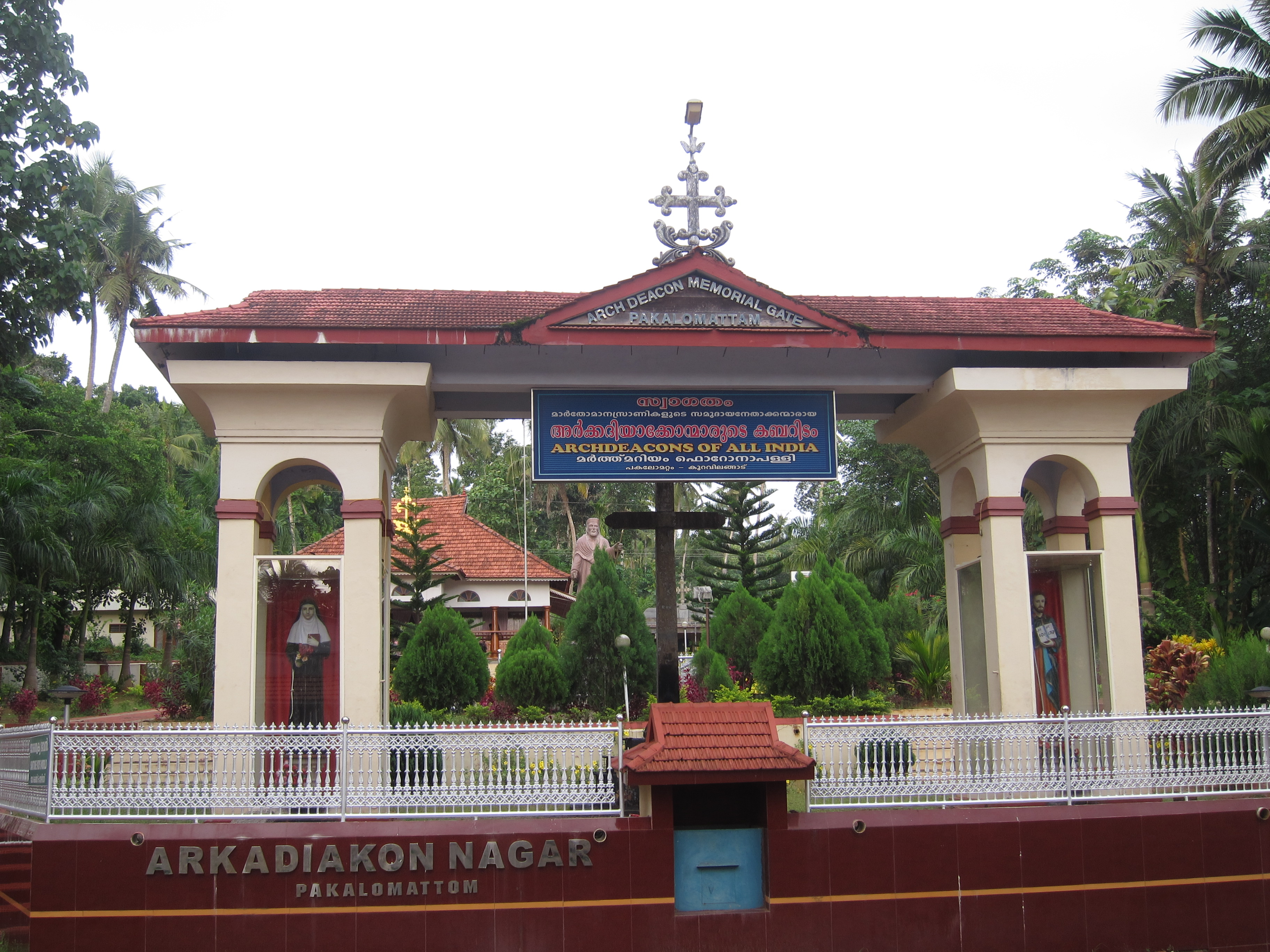 Pakalomattam Forane Church Archdeacons of All India Pakalomattam, Kuravilangad-Ettumanoor Road (M.C Road) Kottayam District 2 k.m away from Kuruvilangad